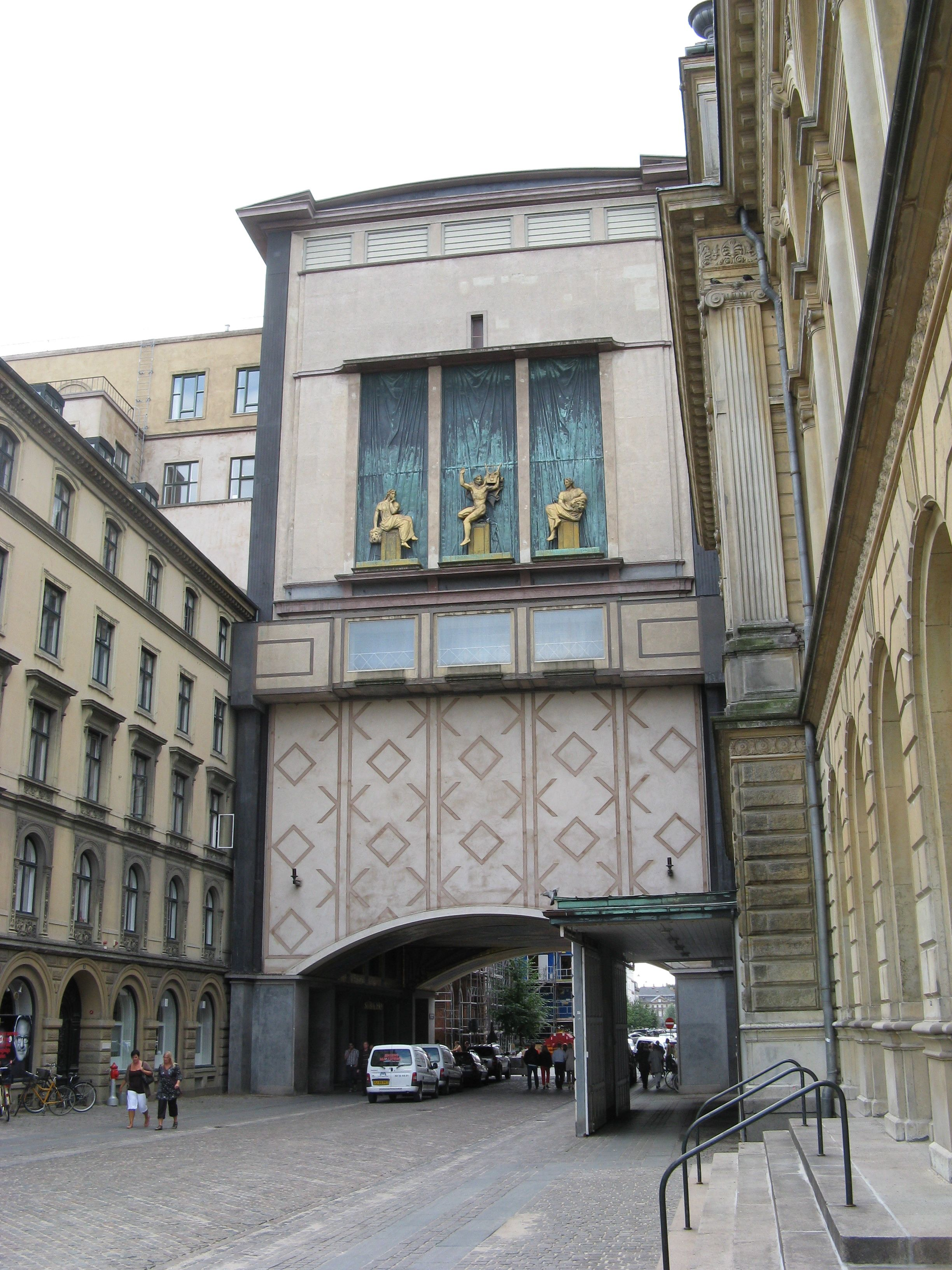 August Bournonvilles Passage beside the Royal Danish theatre in Copenhagen.